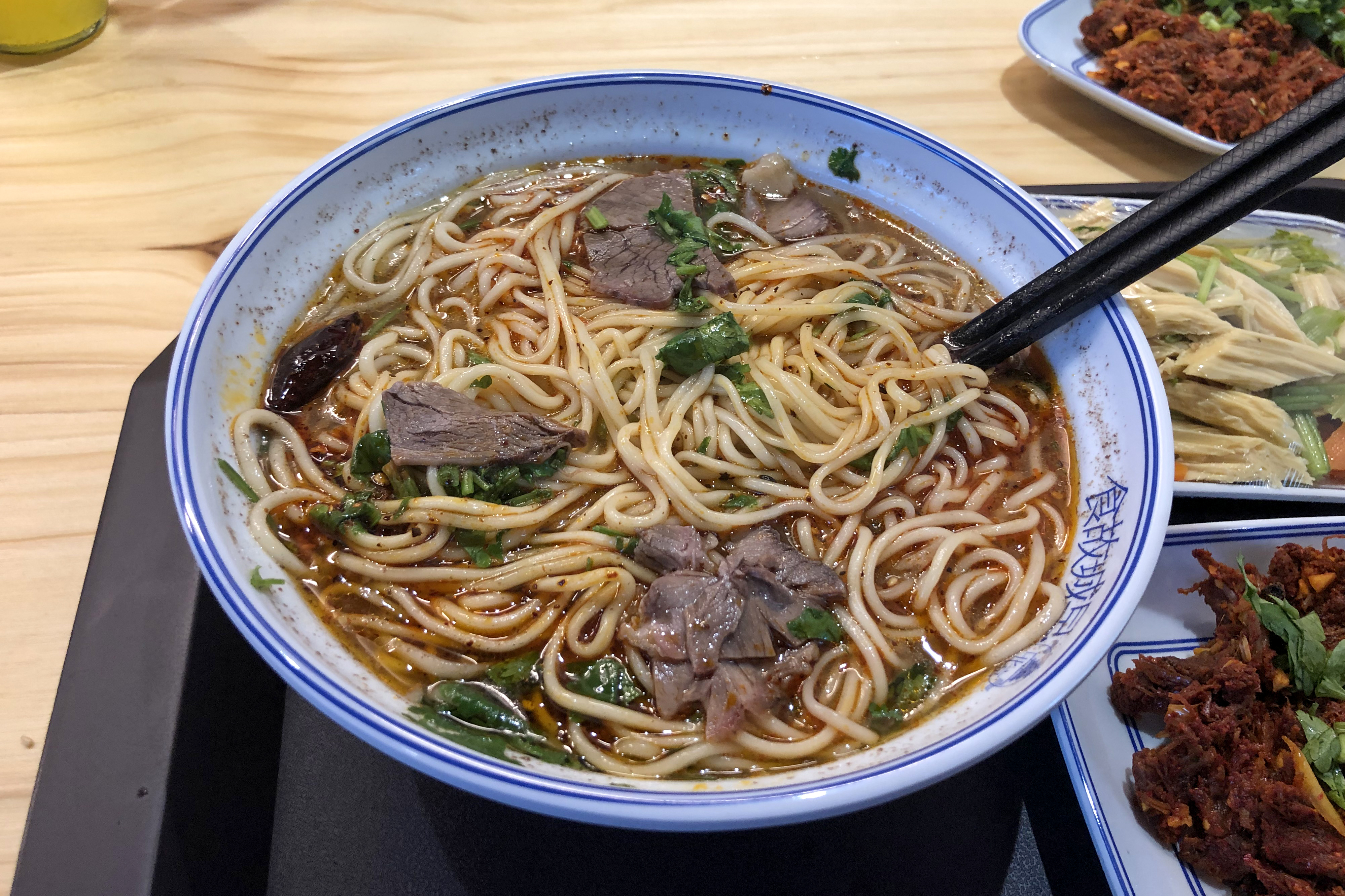 Handmade chili oil is added by asking the waiter for. Lanzhou-style beef noodle soup is supposed to have five elements: clear (soup), white (daikon), red (chili), green (coriander), yellow (noodles).